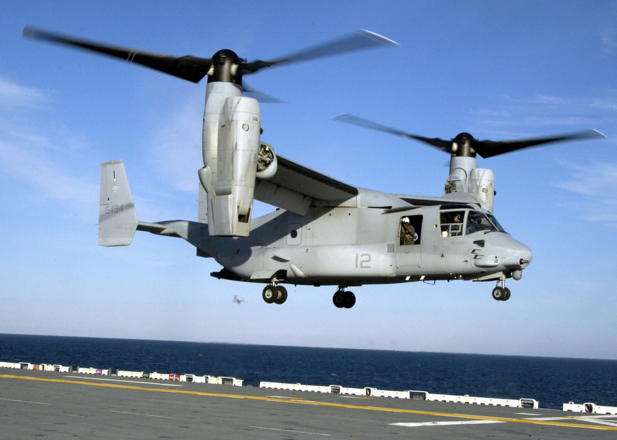 Atlantic Ocean (Dec. 6, 2006) - A U.S. Marine Corps V-22 Osprey helicopter practices touch and go landings on the flight deck of the multipurpose amphibious assault ship USS Wasp (LHD 1). Wasp is in transit to Norfolk, Va., after visiting Philadelphia, Pa., for the Army-Navy football game. U.S. Navy photo by Mass Communication Specialist 2nd Class Katie Earley (RELEASED)